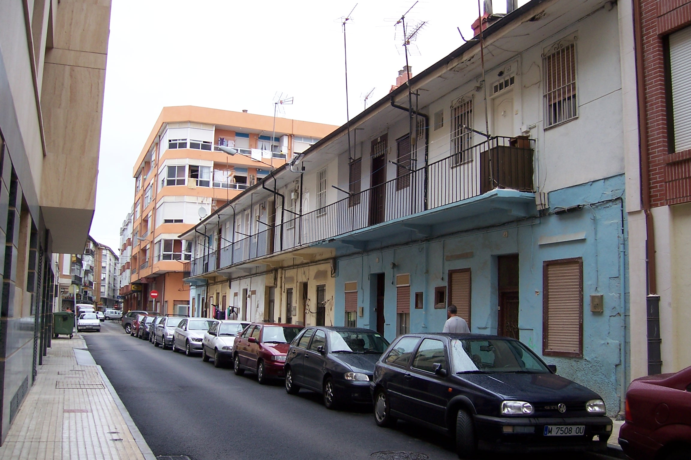 Houses called "of corridor" built at the beginning of the 20th century, Santoña (Cantabria)